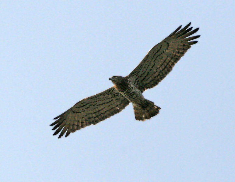 Short-Toed Snake Eagle Circaetus gallicus in Kawal Wildlife Sanctuary, Andhra Pradesh, India.